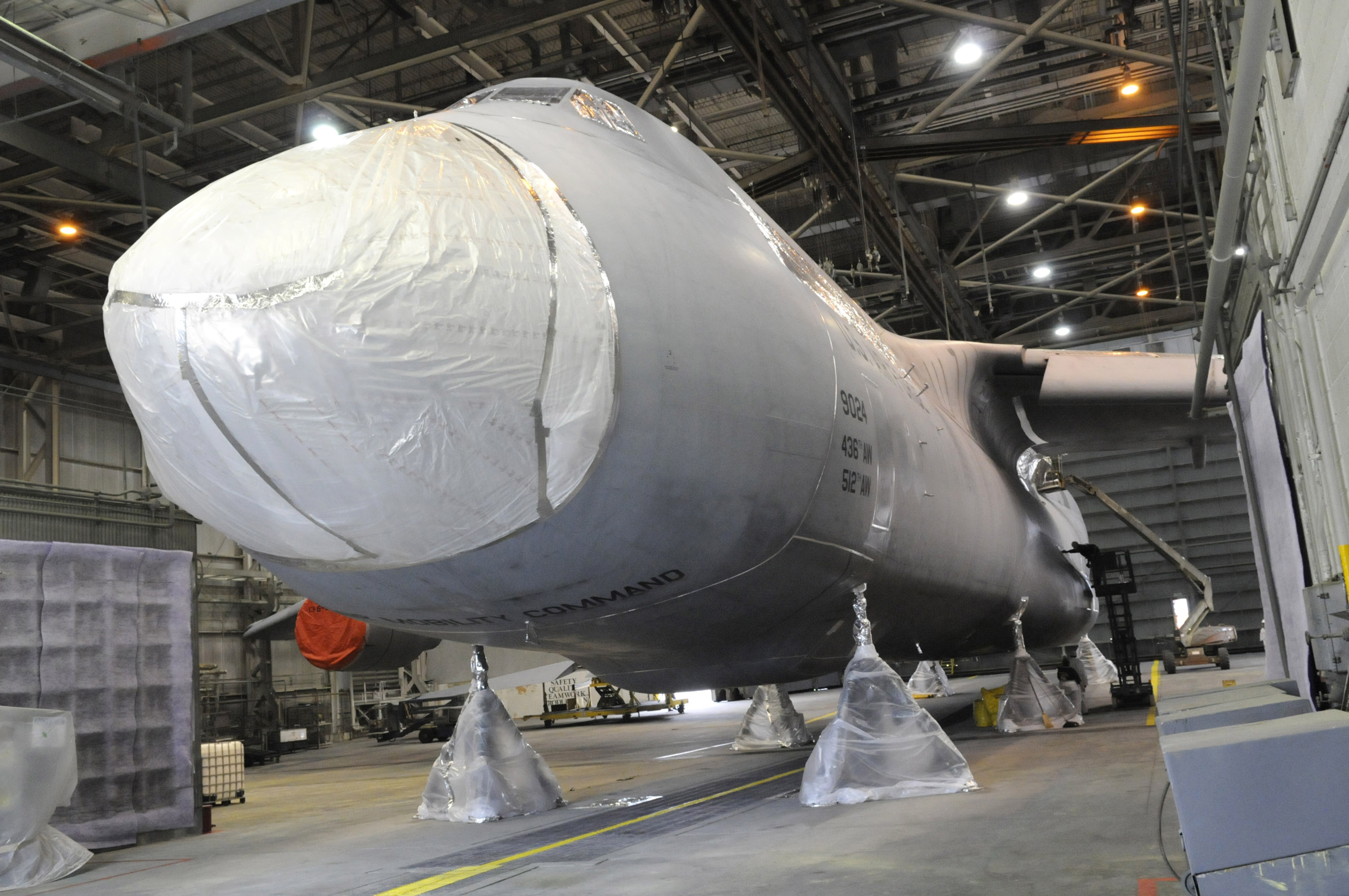 A C-5M Galaxy sits in a depaint hangar at Warner Robins ALC, where workers have masked the seams, composite areas and antennas in order to spray on stripper to remove the paint from the aircraft. C-5Bs are undergoing Avionics Modernization Program and Reliability Enhancement and Re-engining Program upgrades, modifying them to C-5M Super Galaxys.